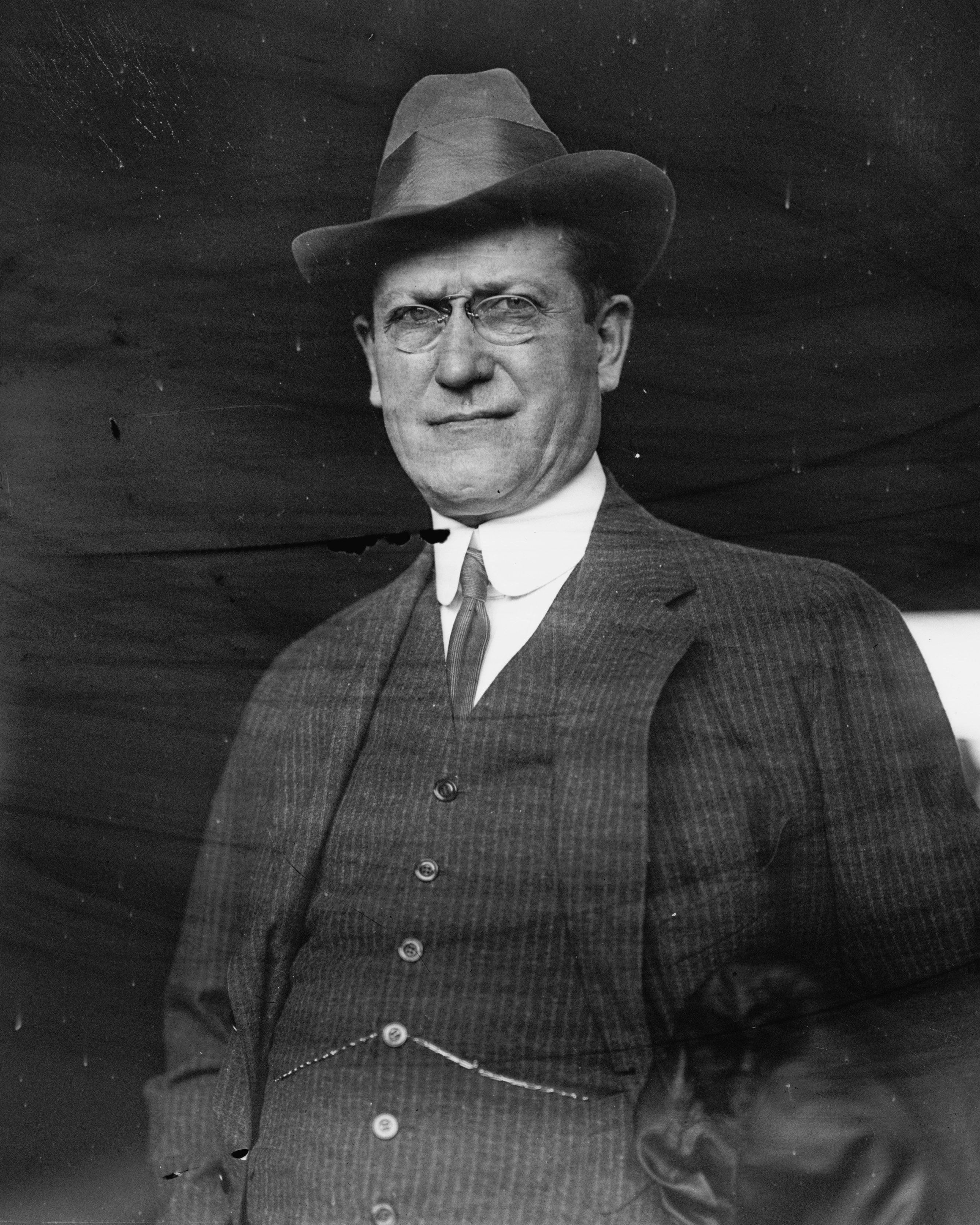 Bain News Service,, publisher. William A. Brady, circa 1910-1913 [no date recorded on caption card]. 1 negative : glass ; 5 x 7 in. or smaller. Notes: Title from unverified data provided by the Bain News Service on the negatives or caption cards. Forms part of: George Grantham Bain Collection (Library of Congress). Format: Glass negatives. Repository: Library of Congress, Prints and Photographs Division, Washington, D.C. 20540 USA, General information about the Bain Collection is available at Persistent URL: Call Number: LC-B2- 2769-11